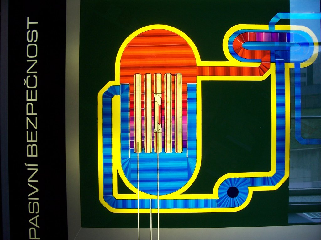 Dukovany Nuclear Power Station.